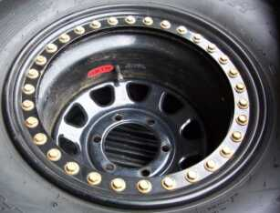 Beadlock1